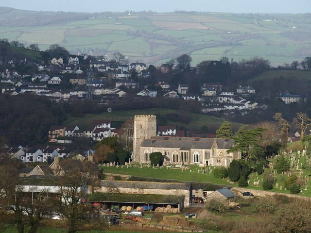 St Mary's church, Wolborough The church , also shown in , seen from Newton Abbot Footpath 3, with the farm at Wolborough Barton in the foreground. In shadow behind is part of the Bradley Barton / Highweek area of Newton Abbot, in SX8471. The sunlit fields in the distance are between Hennock and Bovey Tracey, and in SX8279 and adjoining squares.